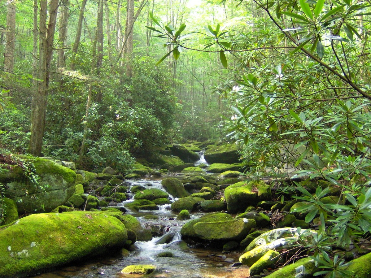 Jakes Creek above Elkmont, GSMNP, in East Tennessee. This creek is named for Jacob Hauser, who is thought to be the first Euro-American settler in the Elkmont area. Hauser arrived sometime around 1840.